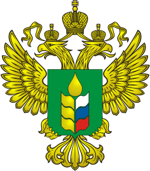 Russian Federation, Emblem of the Ministry of Agriculture.